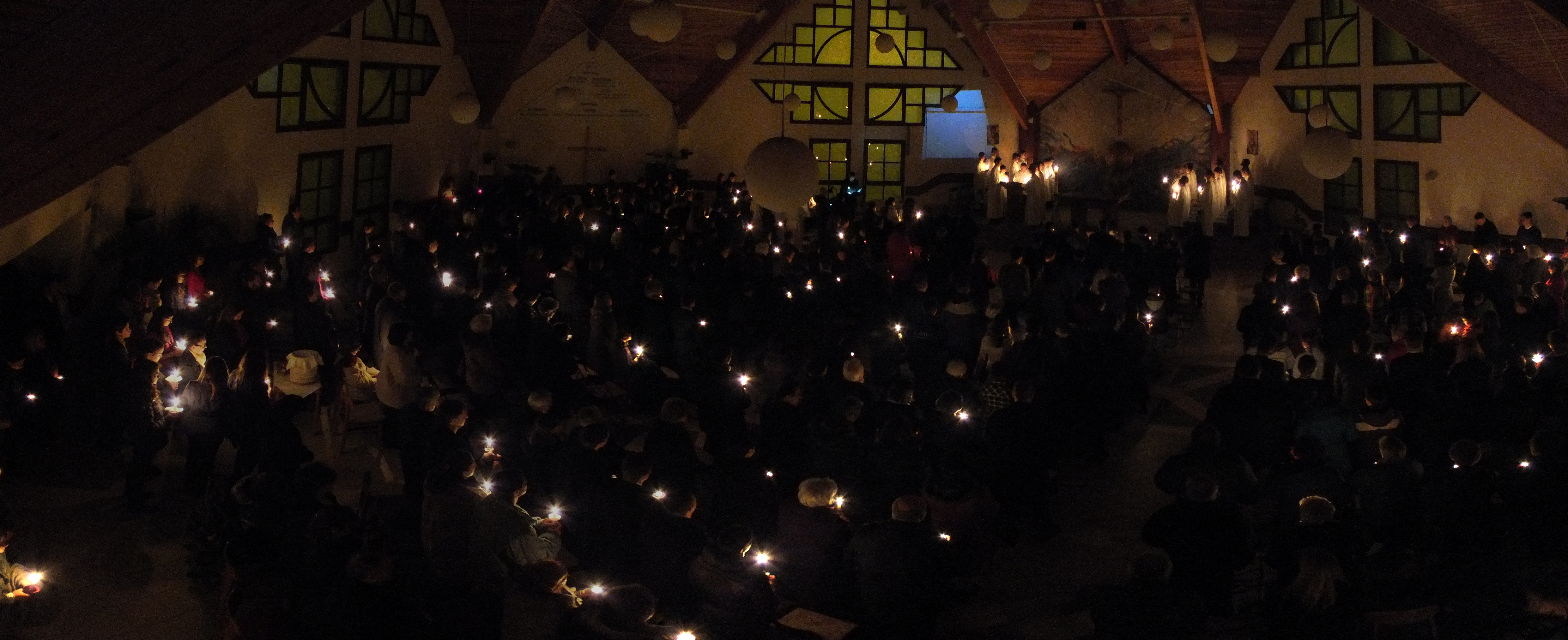 Easter Vigil liturgy in Kaposztasmegyer